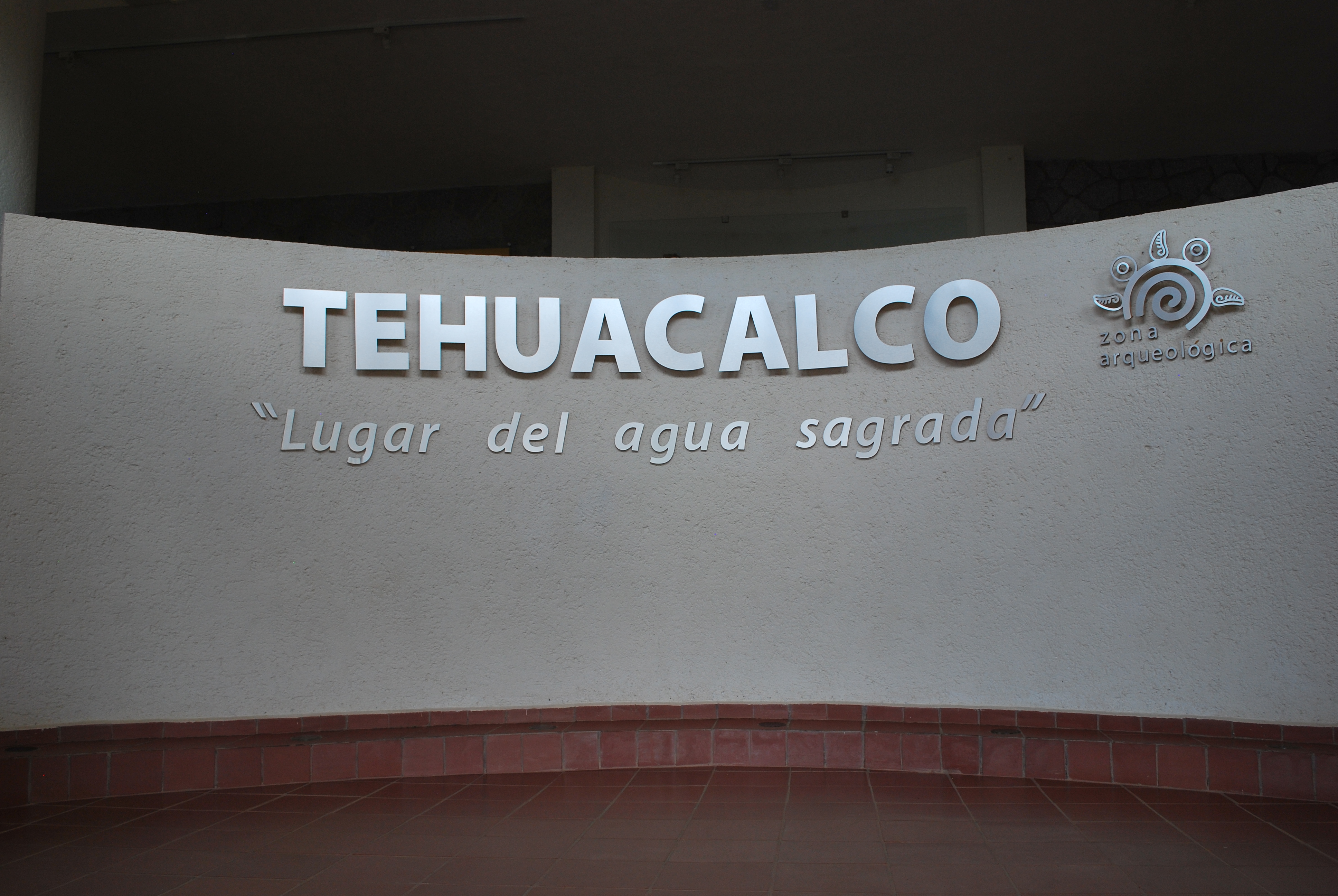 Welcome center at Tehuacalco, Guerrero